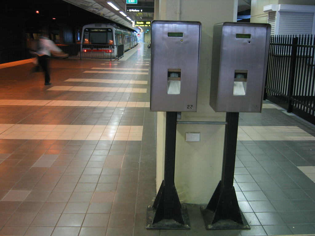 Old MultiRider validation machine at the Thornlie platform of Perth Station, December 2005. The system was phased out in 2007 in favour of SmartRider smart card technology.